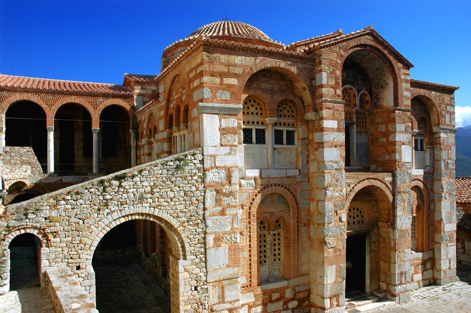 "Hosios Lukas" monastery, Greece - © UNESCO World Heritage property